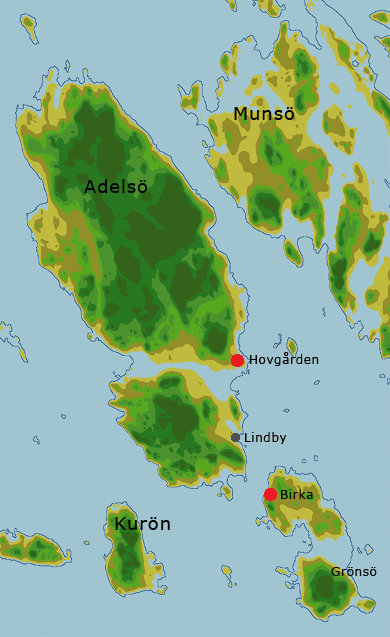 Topographic map of the archipelago around Birka and Hovgården (Sweden) as it appeared during the Viking age when the baltic sea level was 5m higher than the current level of lake Mälaren. The blue line is today's coastline. The contour lines are spaced every 5m.